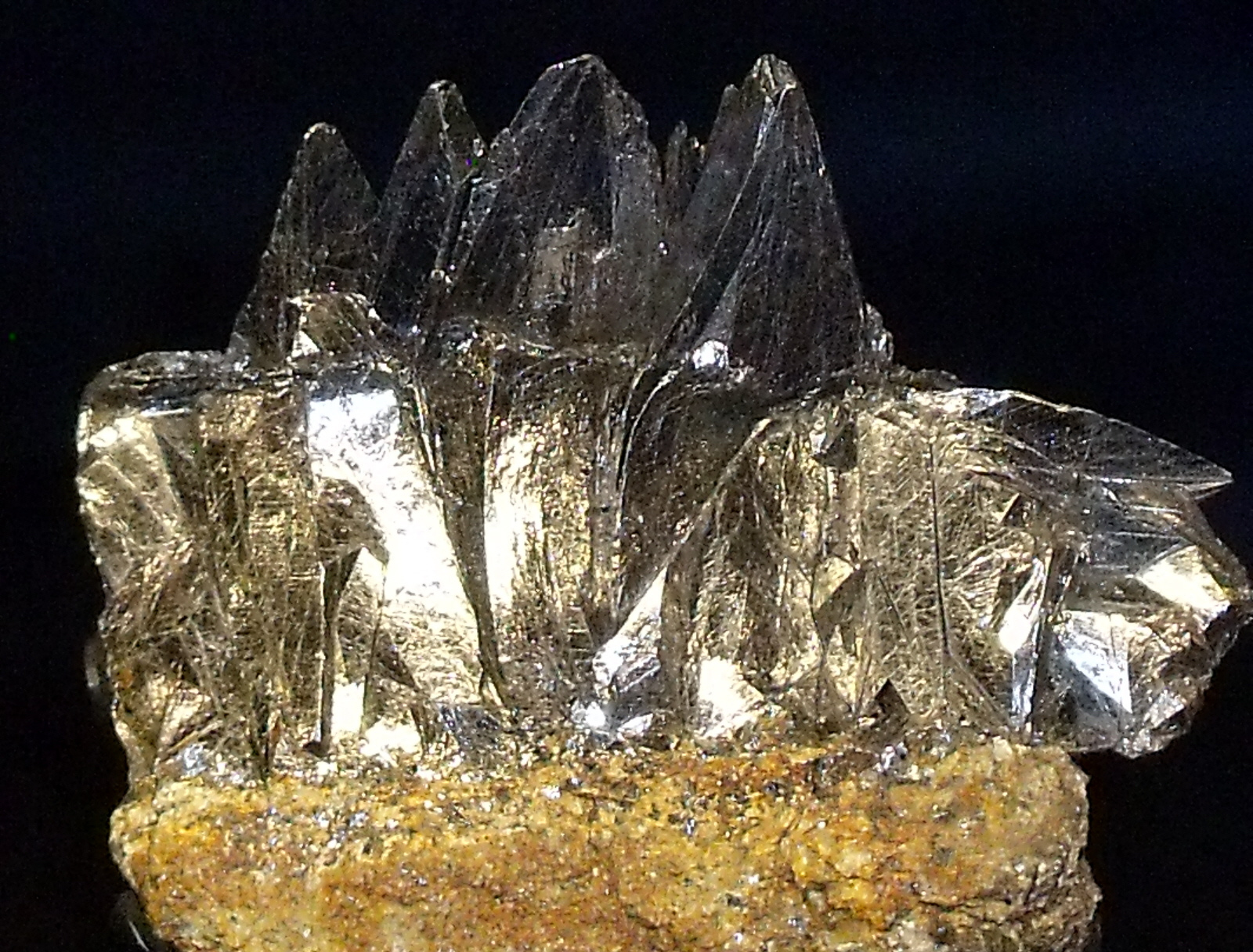 World-class graphite crystals in standing sheets 10 to 15 cm high. My thanks to the Manitoba Mineral Society for pointing out these unlabeled specimens from Baffin Island, on display at the Canadian Museum of Nature, Ottawa, Canada.